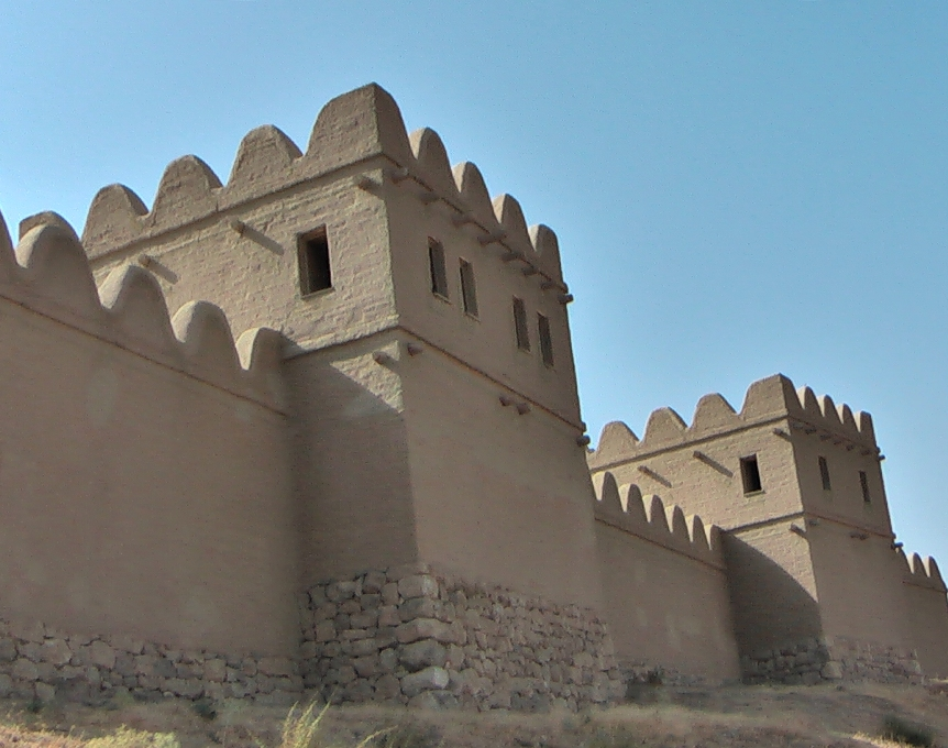 Wall in Hattusa